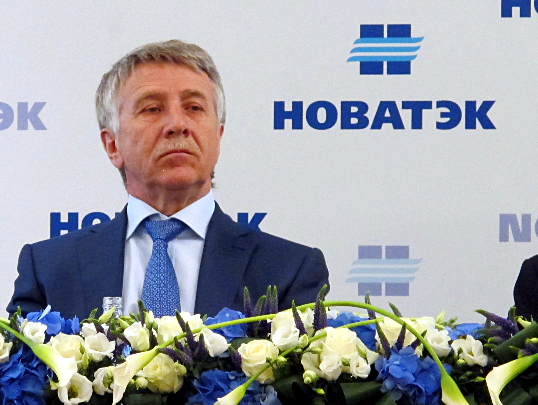 NOVATEK’s Annual General Meeting of Shareholders 2016-04-22